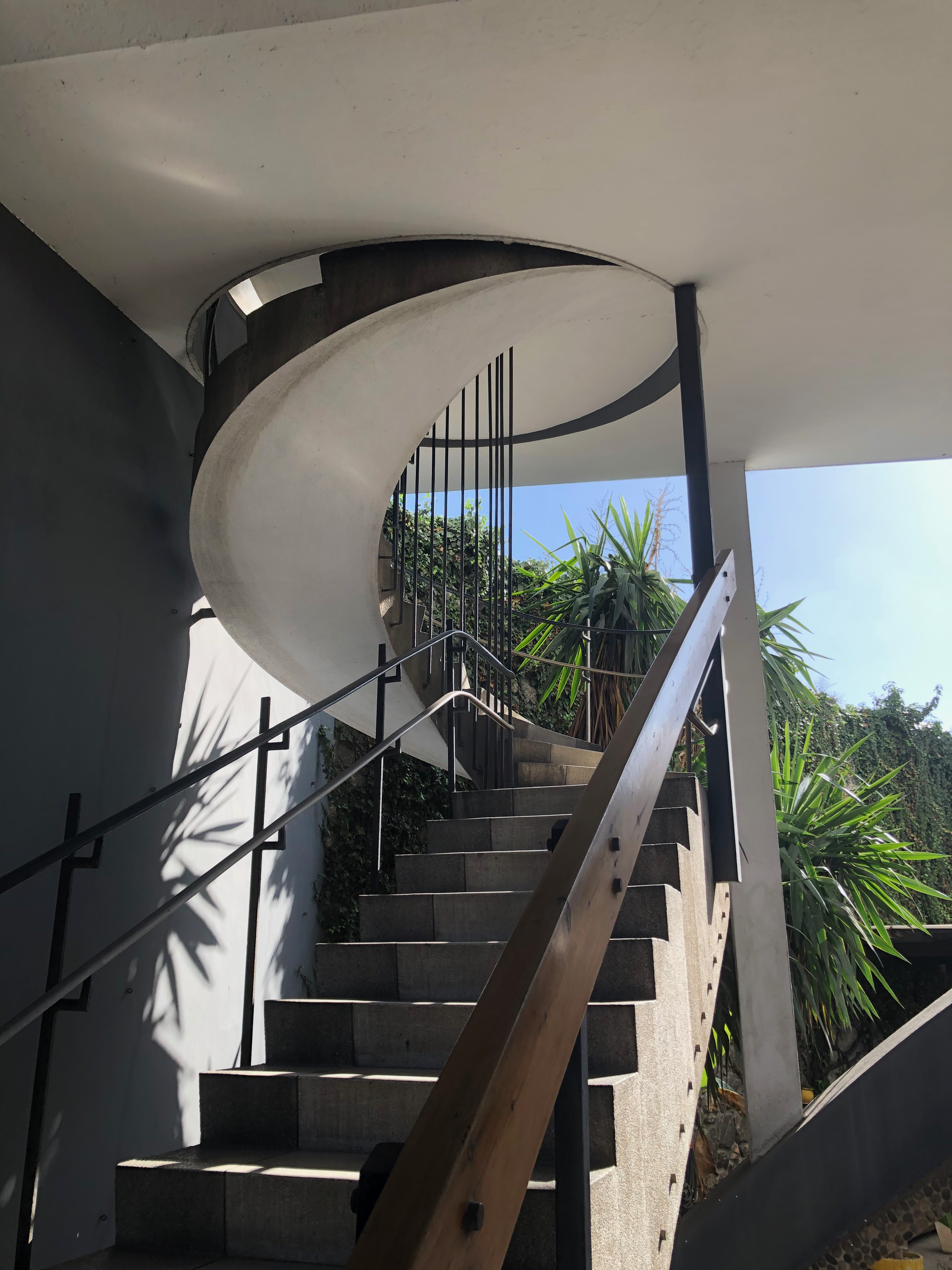 Vincent Timsit Workshop (VÉTÉ) Blvd. Moulay Ismail Casablanca, Morocco Jean-François Zevaco 1952